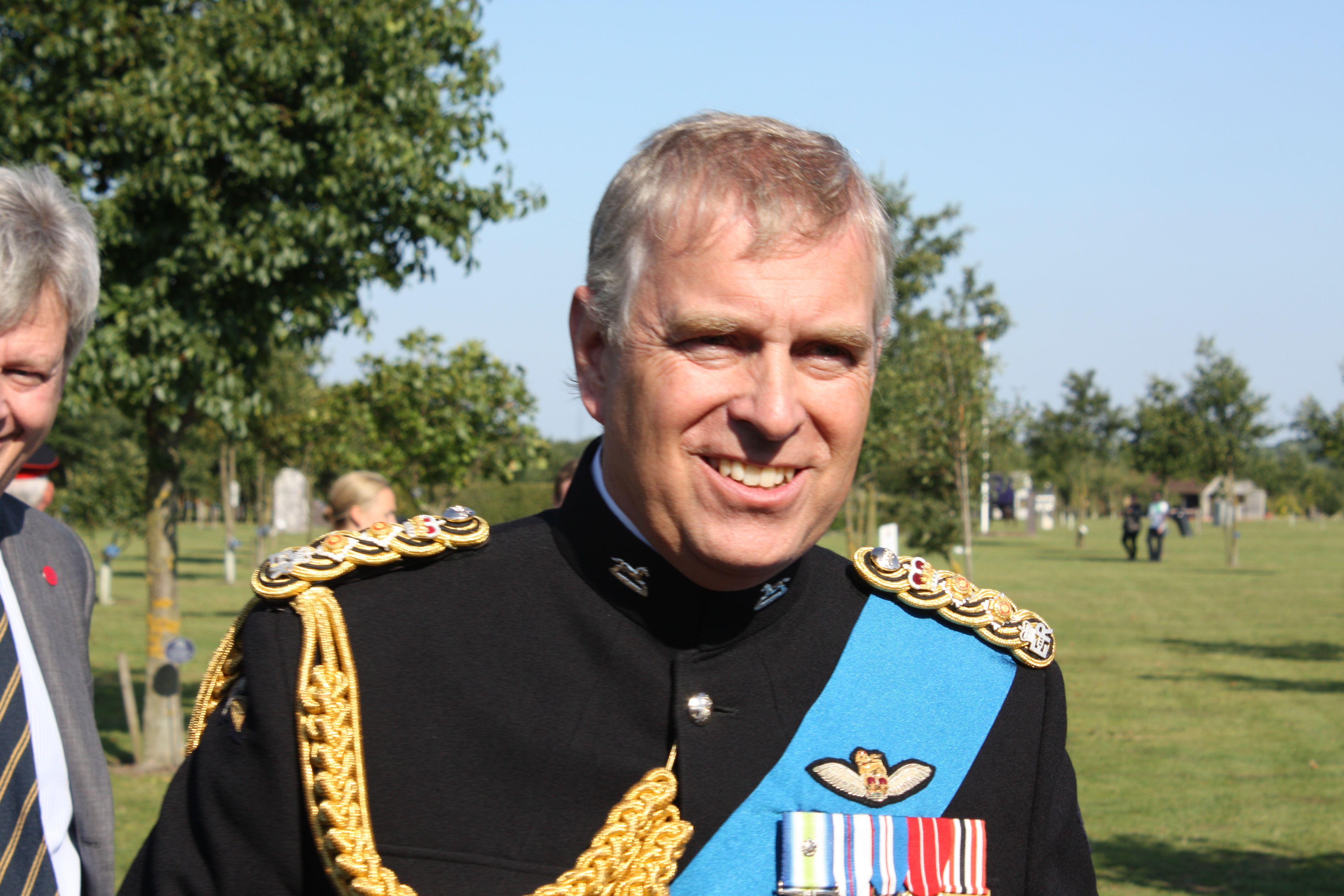 Prince Andrew at the National Memorial Arboretum, Alrewas, 1st September 2011